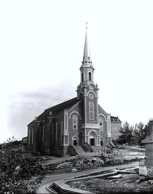 Photograph, Chicoutimi Church, Saguenay River, QC, about 1890, Wm. Notman & Son, Silver salts on glass - Gelatin dry plate process - 25 x 20 cm